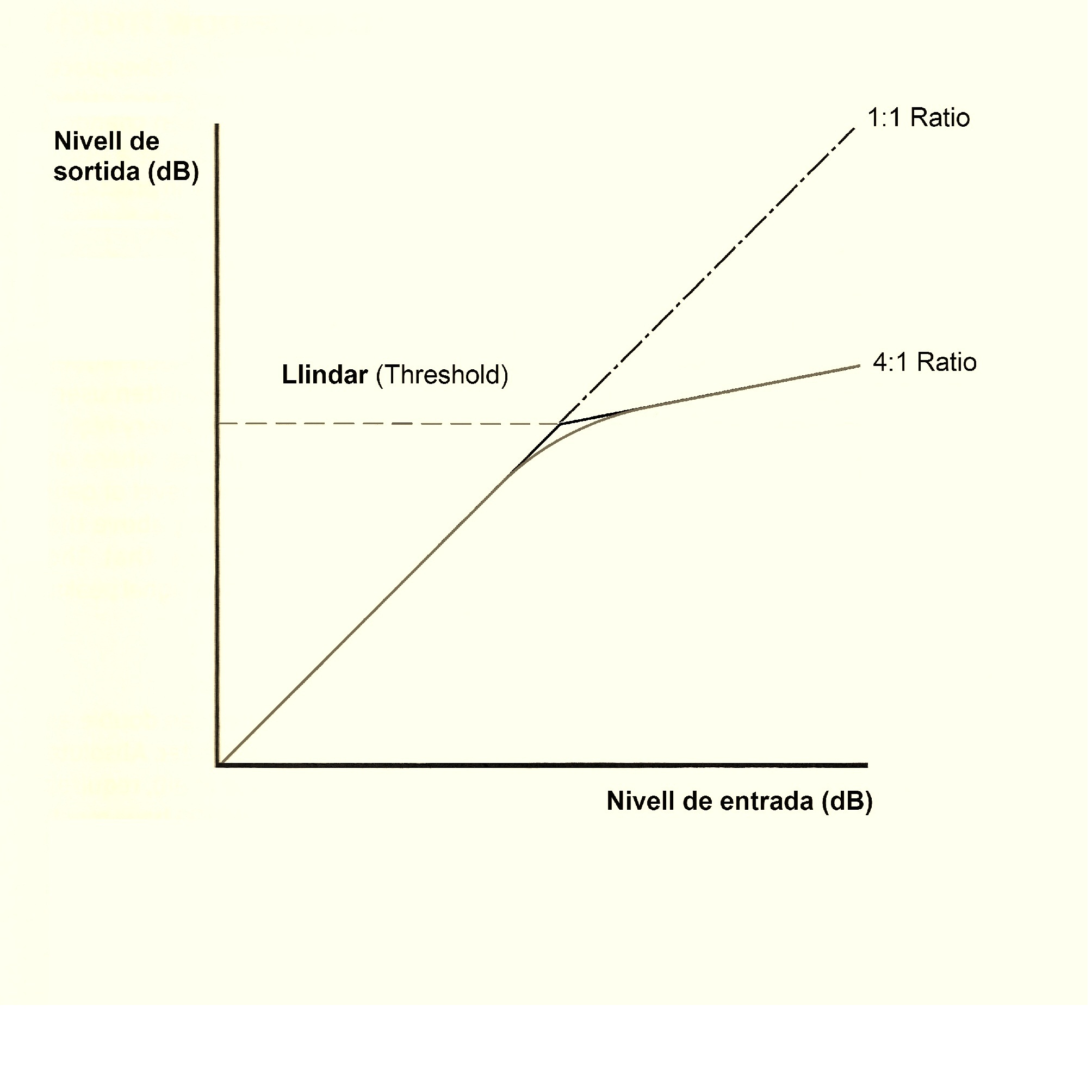 Soft Knee